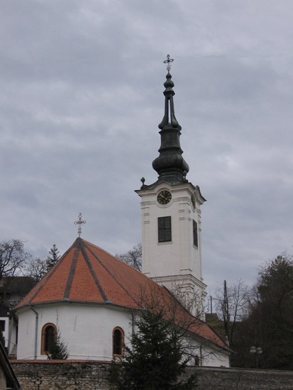 Cerevic_orthodox_church.jpg